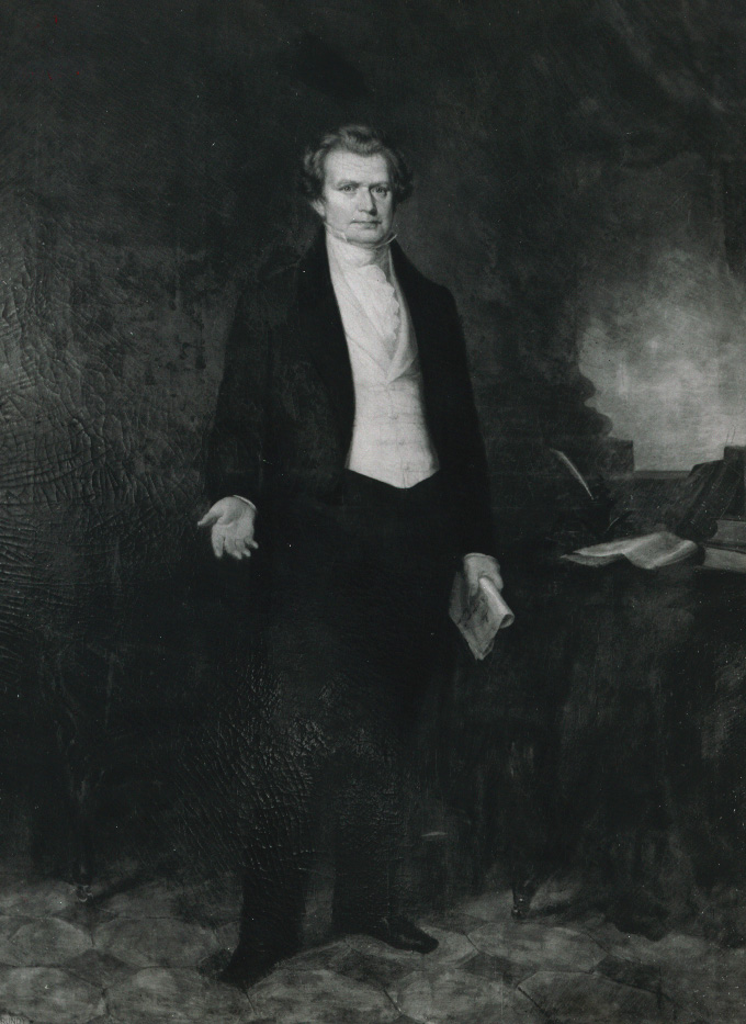 Portrait of Felix Grundy by George Dury, Tennessee State Library and Archives